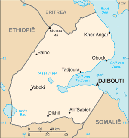 An Afrikaans map of Djibouti.